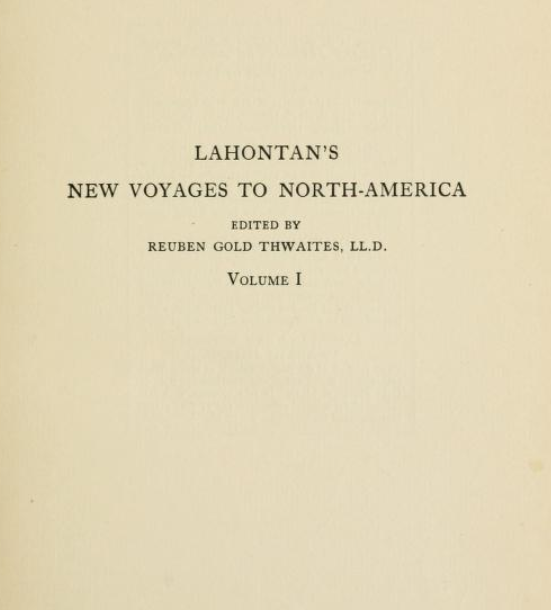 New Voyages to North America (written in 1703) explores the author's personal experiences travelling across the pre-colonial North American continent and observing the behaviour of the indigenous tribes who roamed freely there. The takeaway was a positive one, the author having admired the way native American societies were structured, agrarian socialist societies without states, without hierarchy.